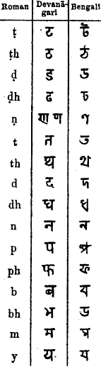 An adaptation of the Hunterian transliteration method that uses diacritics.